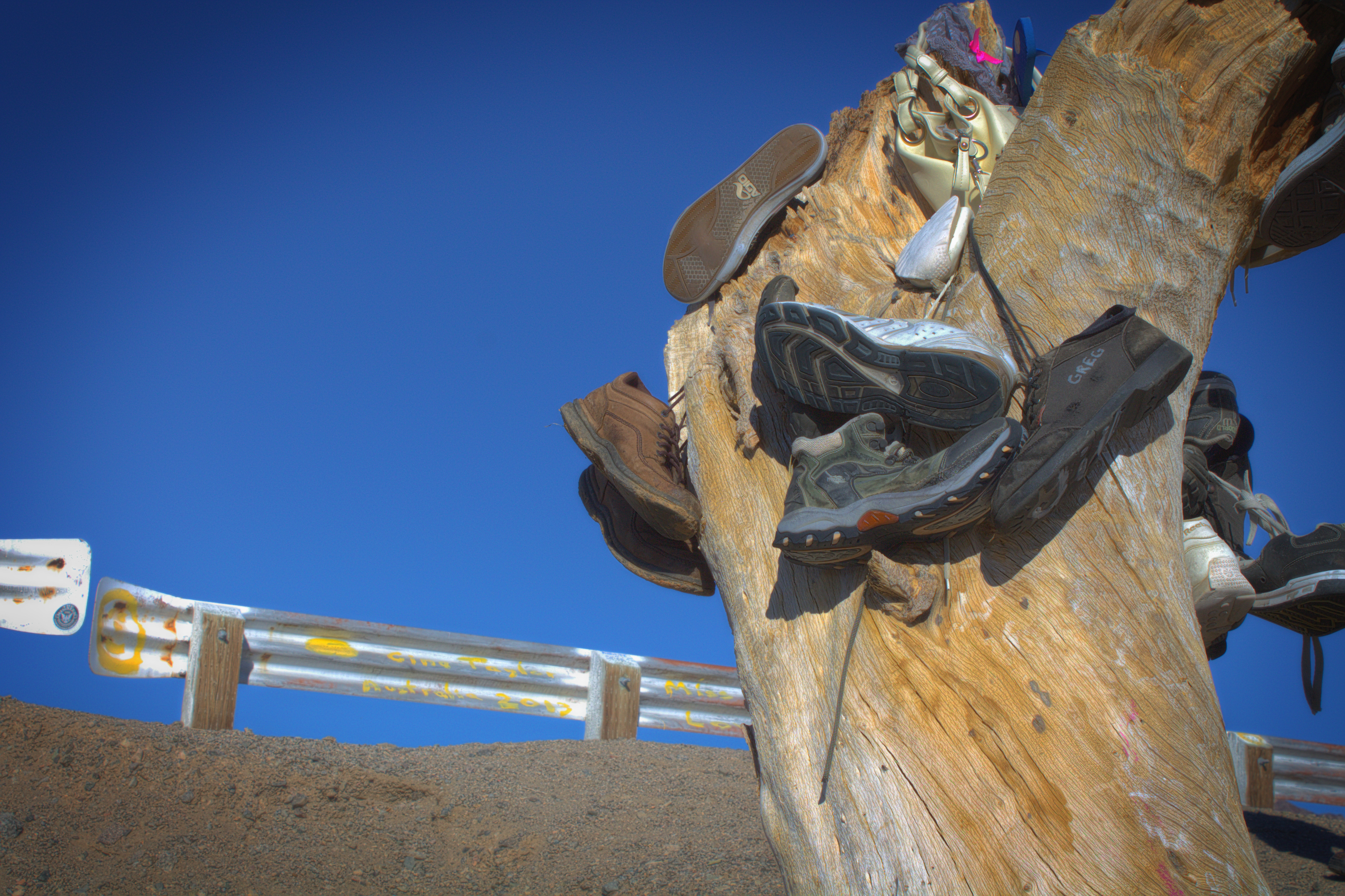 Tennis shoe monument near Amboy, California. Small part of a bigger work of art, that tourists contribute to as desired.